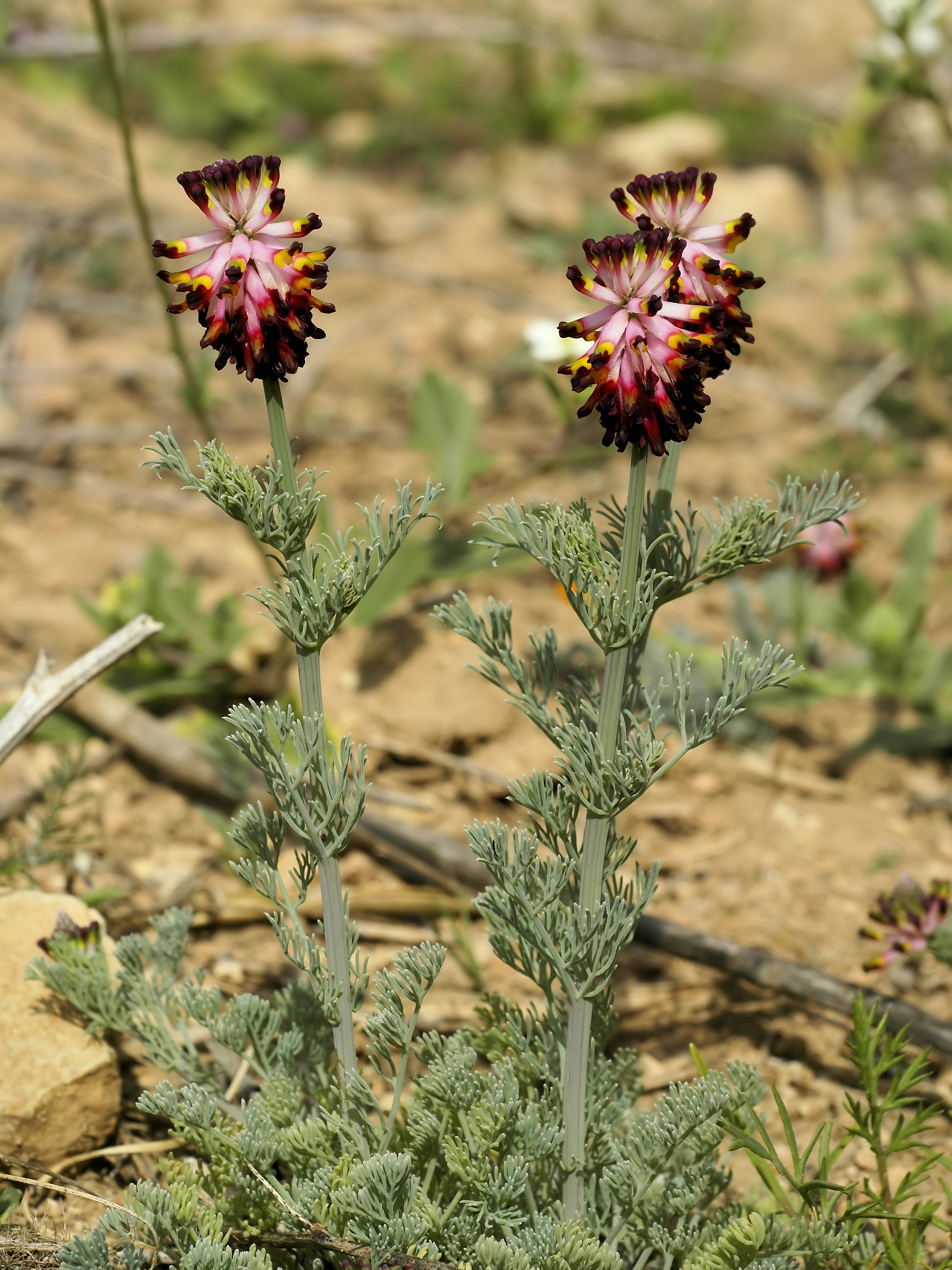 Close to Font de Tita, el Perelló, Spain